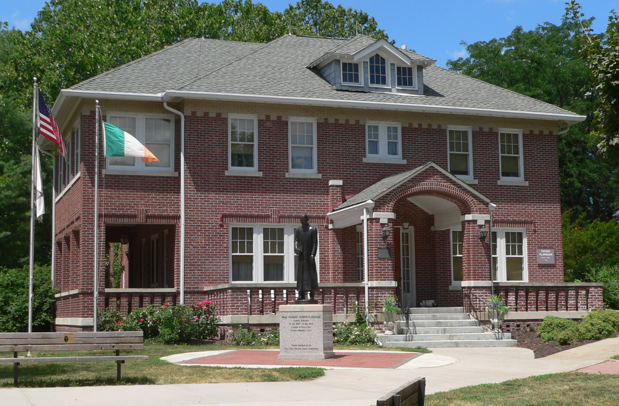 Father Flanagan house in Boys Town, Nebraska; seen from the southeast.